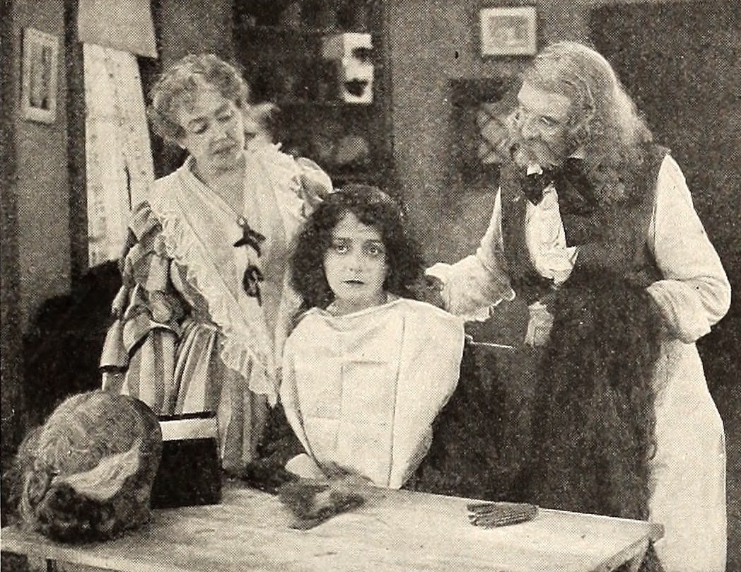 Still from the American film Little Women (1918) with Dorothy Bernard, on page 11 of the March 1919 Film Fun. She is at the hair dressers to sell her long hair.